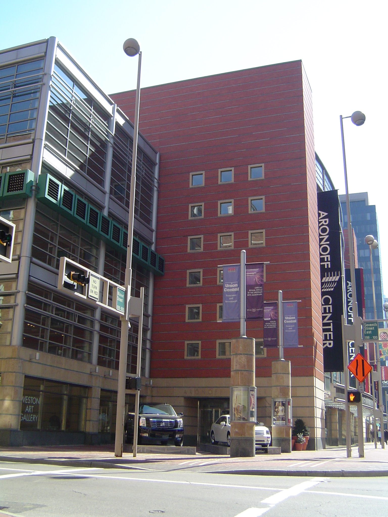 description:Aronoff Center in Cincinnati. photographer: Adam Sonnett location:Cincinnati, OH photographer_url: [1] flickr_url: [2] taken:March 9, 2007